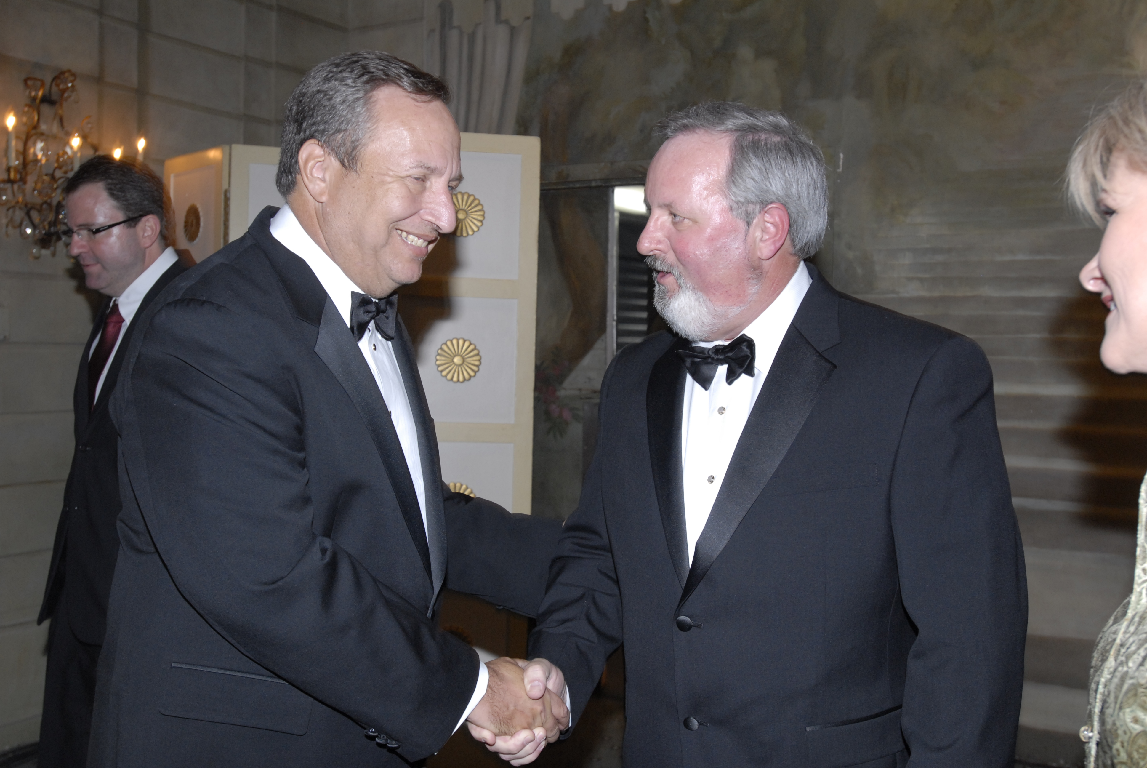 Stuard and Summers